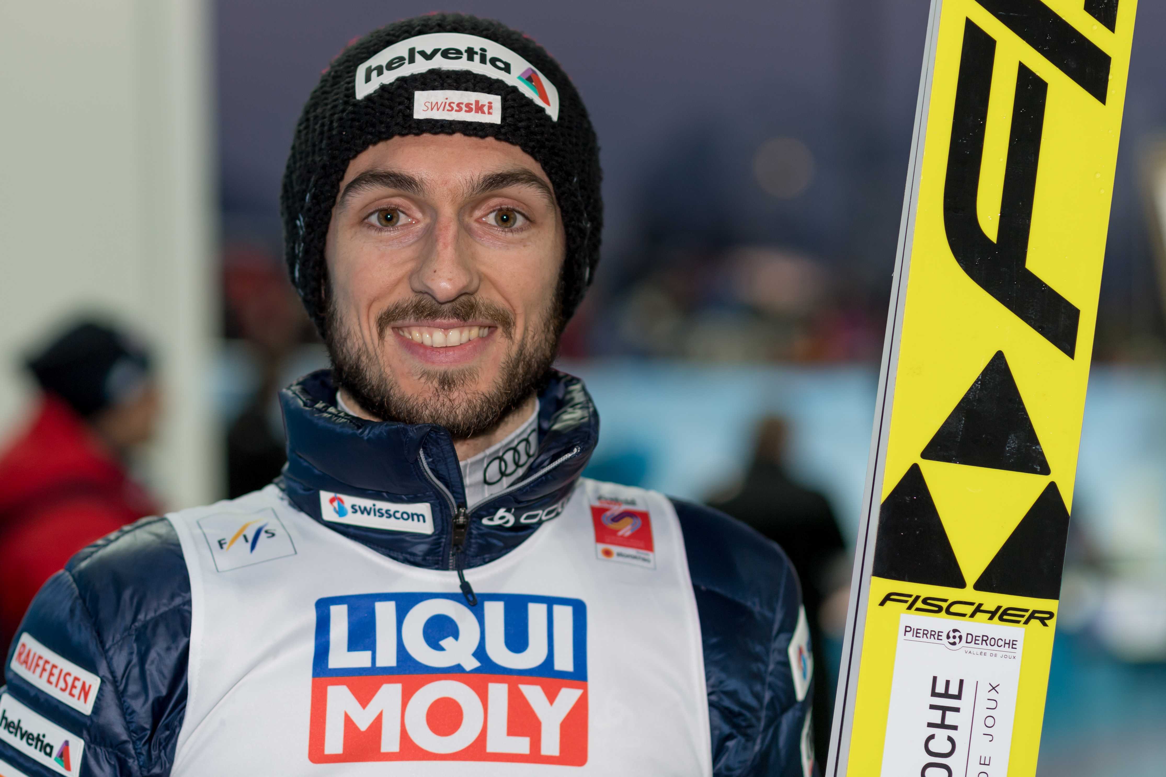 Seefeld, February 28, 2019: FIS Nordic World Ski Championships, Ski Jumping Qualification.